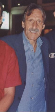 Massimo Buscemi after a Zuzzurro e Gaspare's show in Seccagrande, Ribera(Ag)